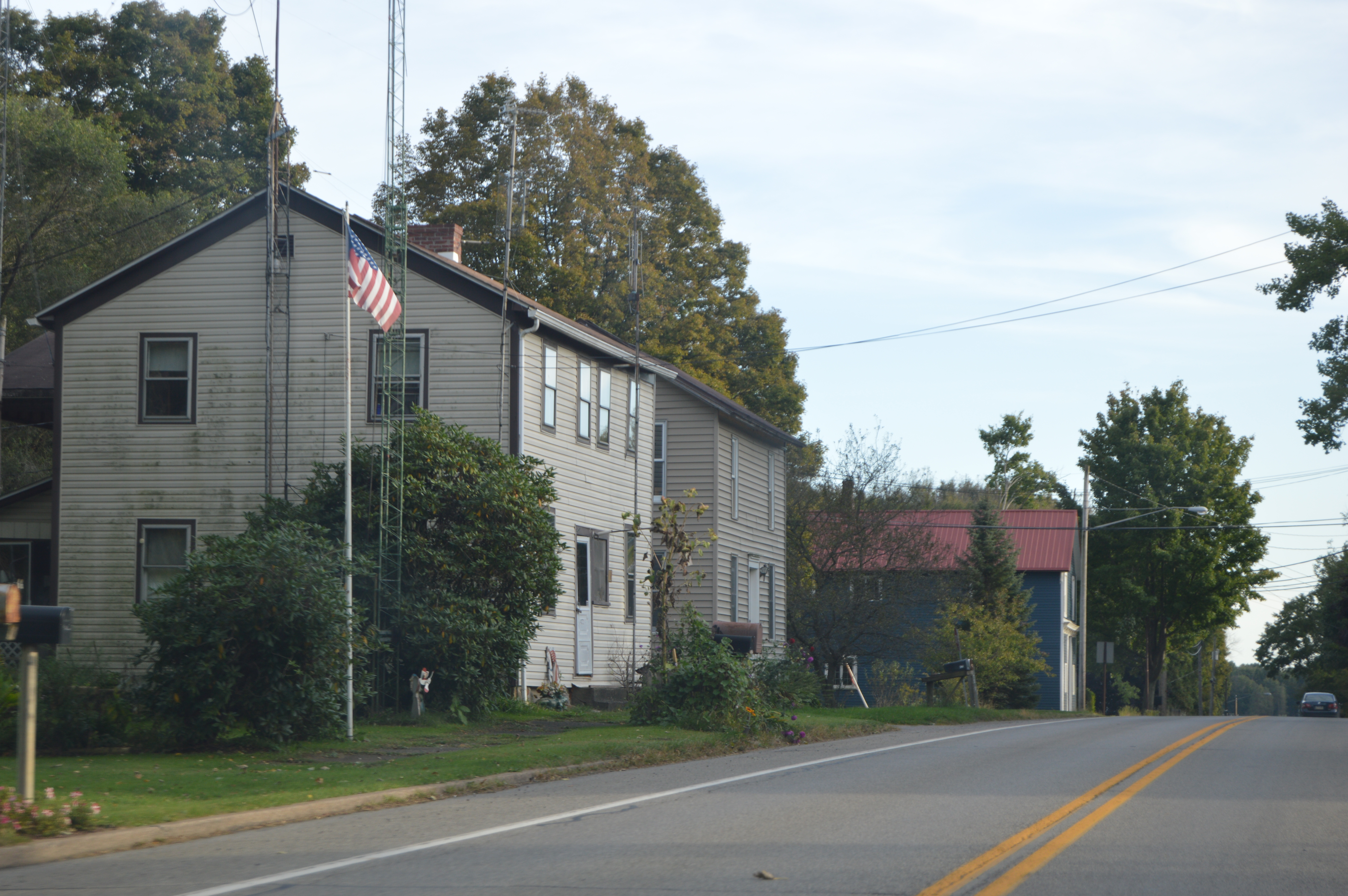 Houses on the eastern side of Mercer Street (Pennsylvania Route 173) south of Chestnut Street in New Lebanon, Pennsylvania, United States.